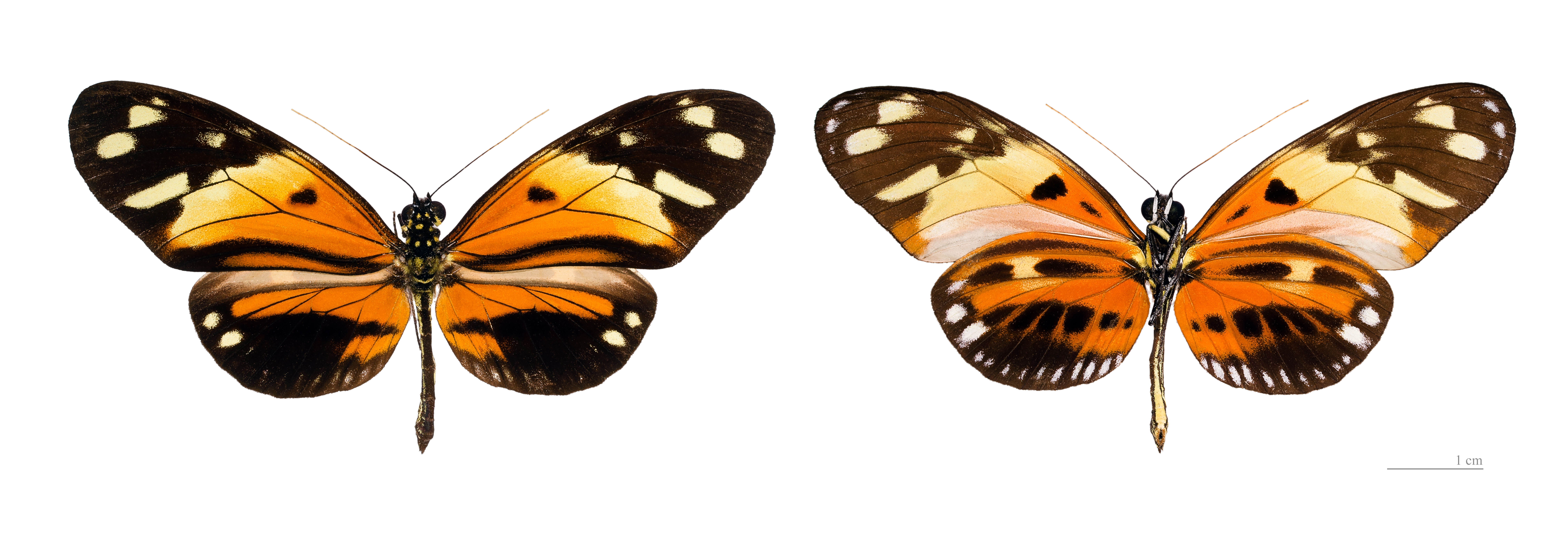 2 views of the same specimen.